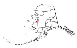 Adapted from Wikipedia's AK borough maps by Seth Ilys.